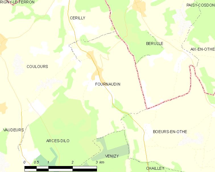 Map of French municipality Fournaudin